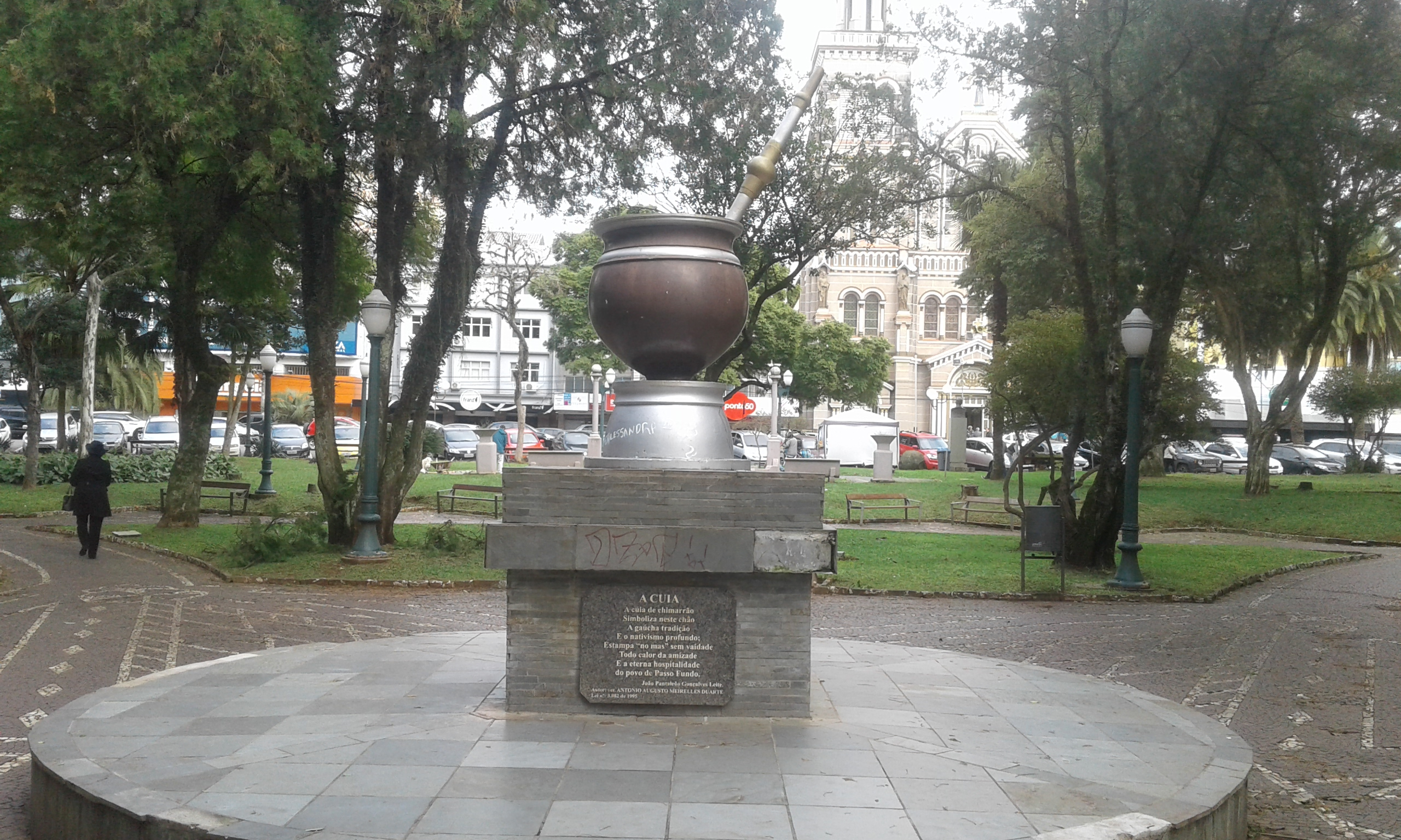 Cuia's monument, Marechal Floriano square, Passo Fundo city, RS, Brazil